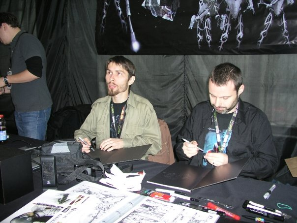 International Festival of Comics, Łódź 2-4.10.2009, Biocosmosis team